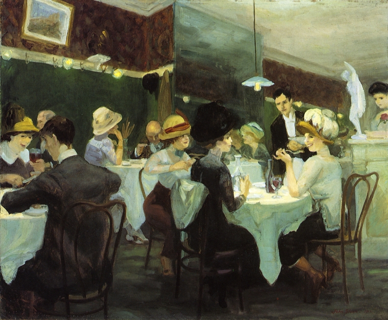 Painting shows interior of Renganeschi's Restaurant, 139 West Tenth Street, New York City, filled with patrons dressed in the fashion of the time. Couples sit at tables. At right a waiter stands at a table where 3 women are seated.